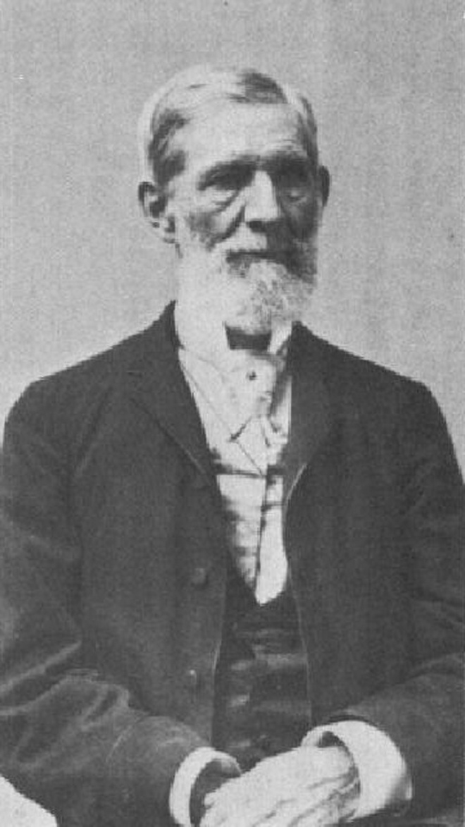 John Leavitt Stevens (August 1, 1820 – February 8, 1895) was the United States Department of State Minister to the Kingdom of Hawaii in 1893.